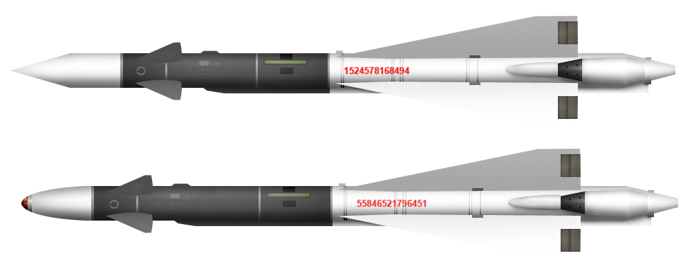 Molnya-Vympel R-40 (AA-6 Acrid) air to air missile scheme